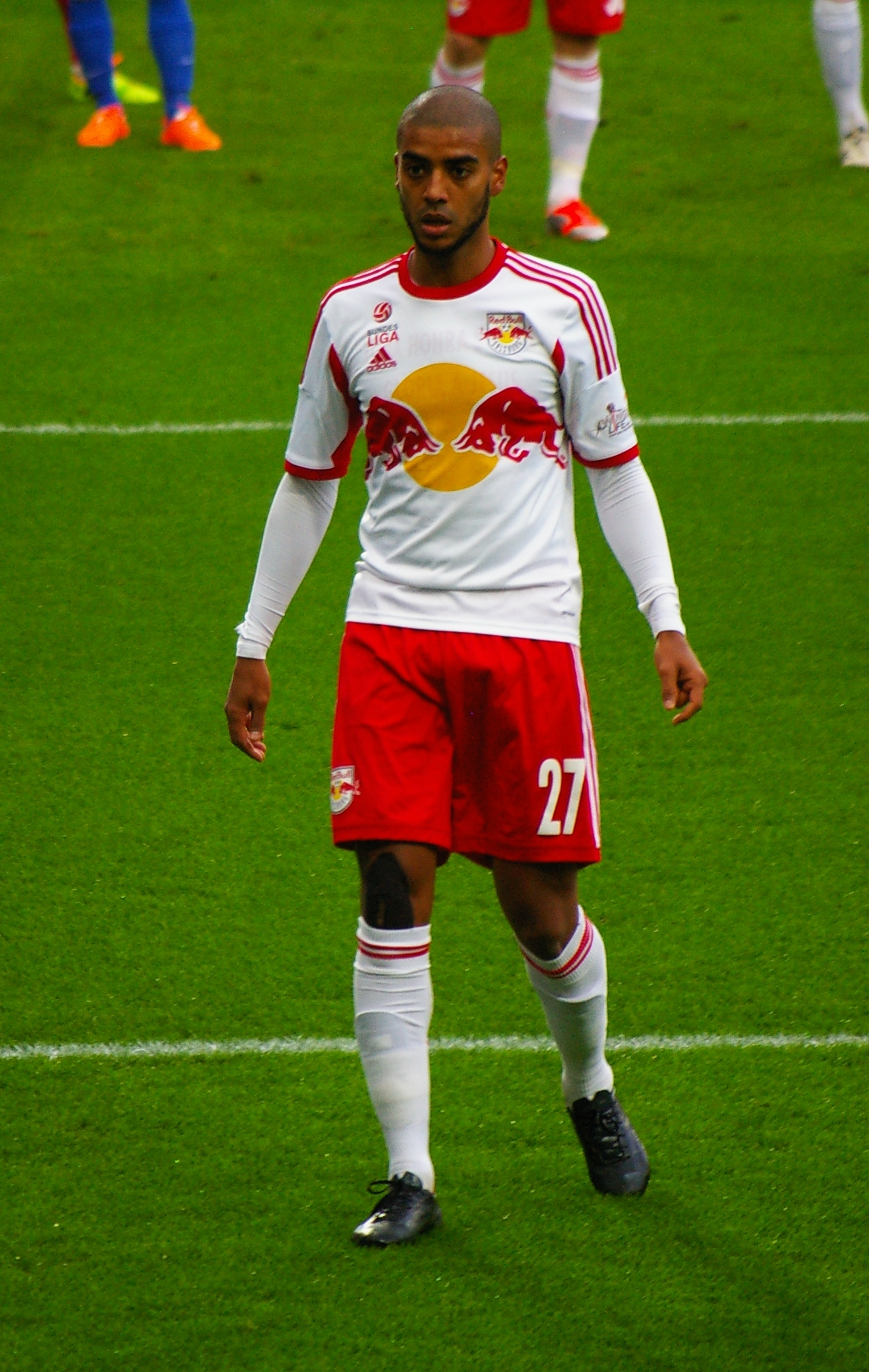 Austrian Bundesliga match